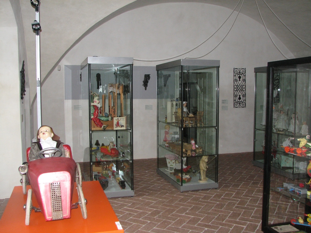 toys from action Chateau full of toys